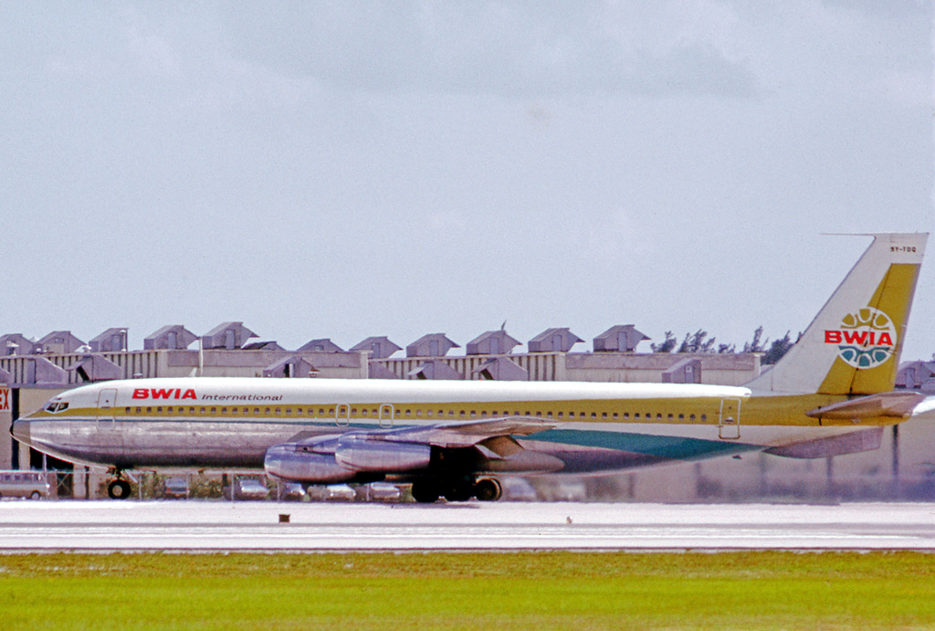 Boeing 707-227 9Y-TDQ of BWIA at Miami International in 1972